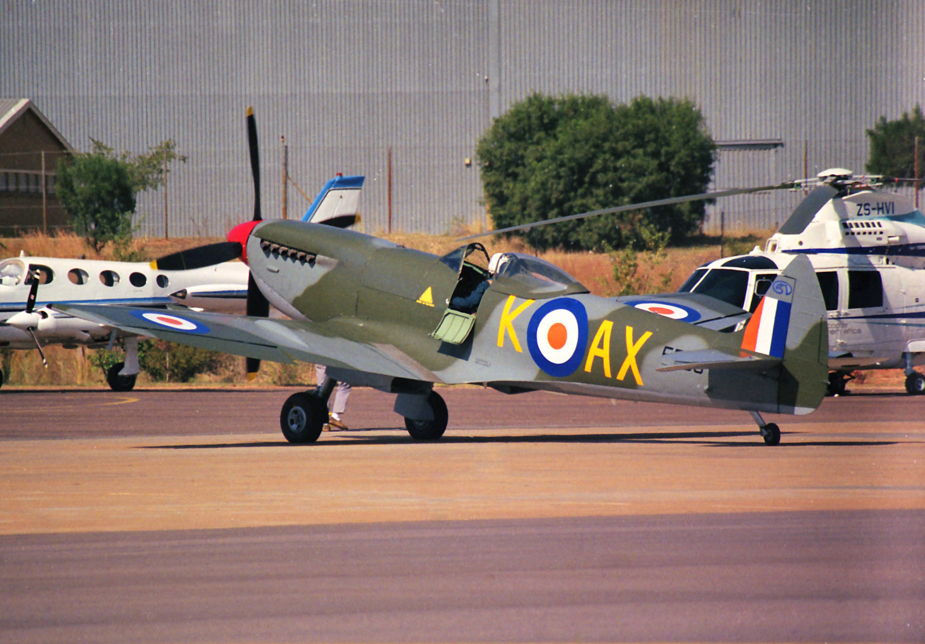 Spitfire Mk L.F.IX, K-AX (5553)